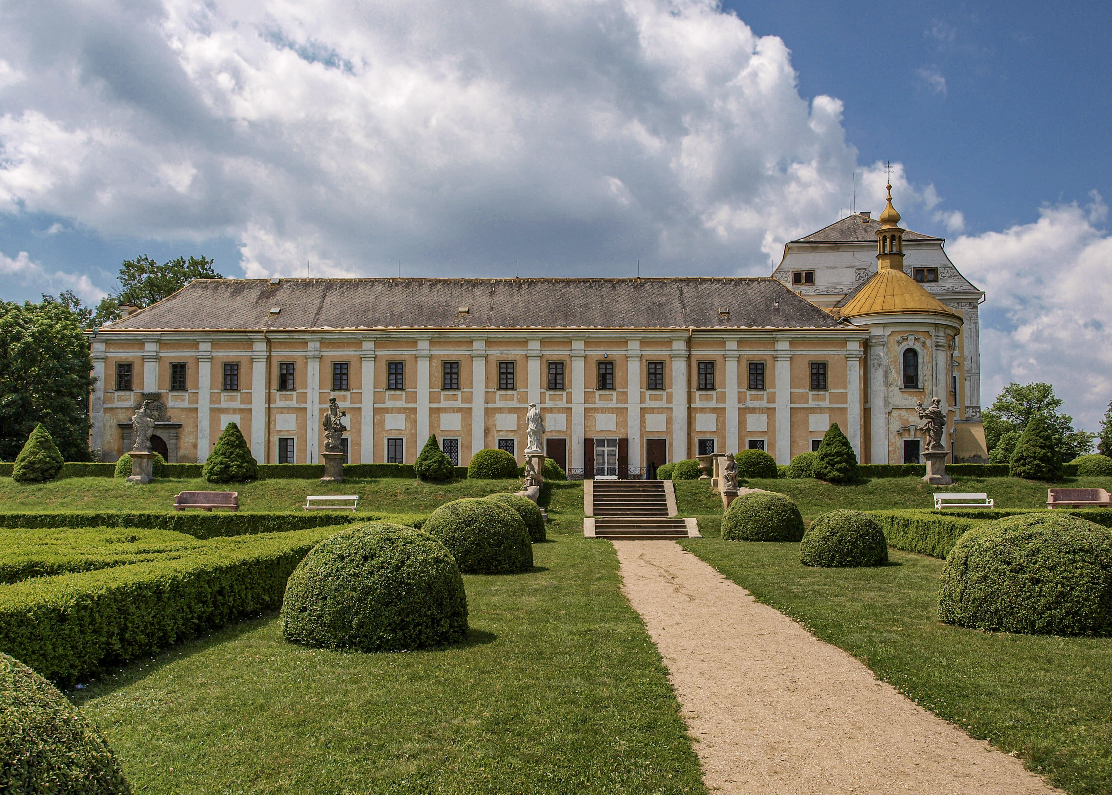 Castel Lysá nad Labem, Central Bohemian Region